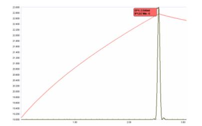 I am the originator of this image I am the originator of this image